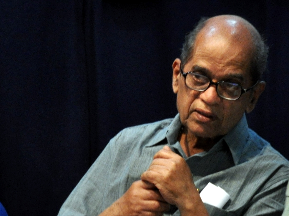 Kannada Writer Srinivas Vaidya. ಕನ್ನಡ: ಶ್ರೀನಿವಾಸ ವೈದ್ಯ